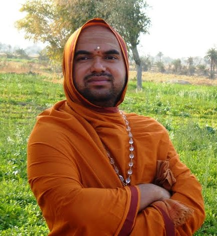 Raghweshwara Bharathi guruji